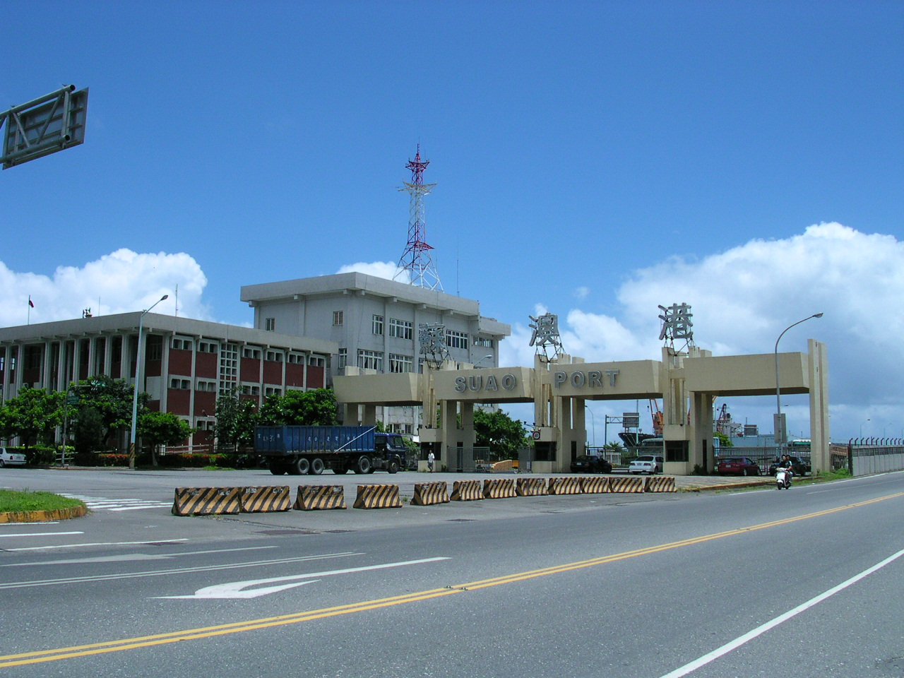 Port Entrance, Suao Port.